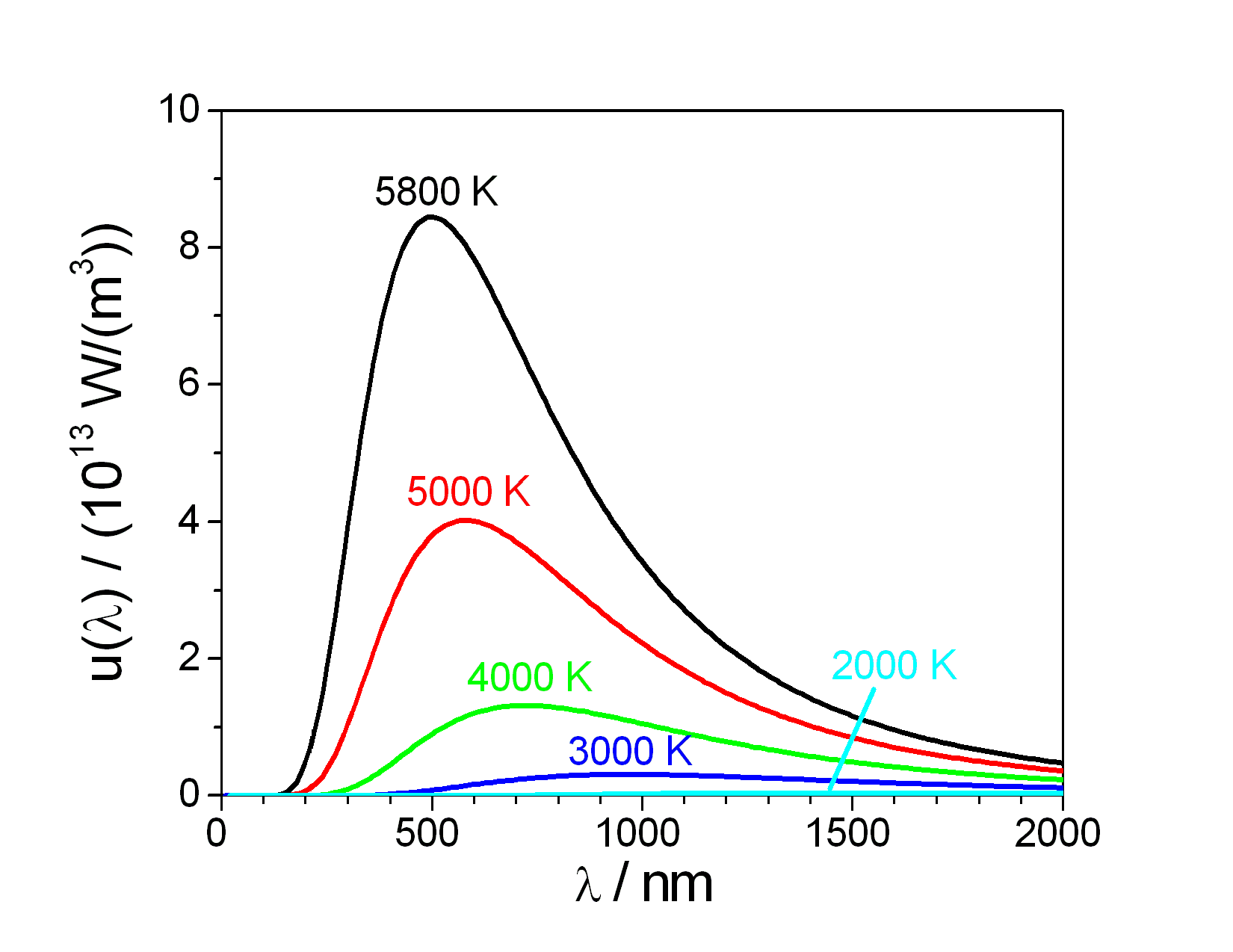 Planck's law of radiation